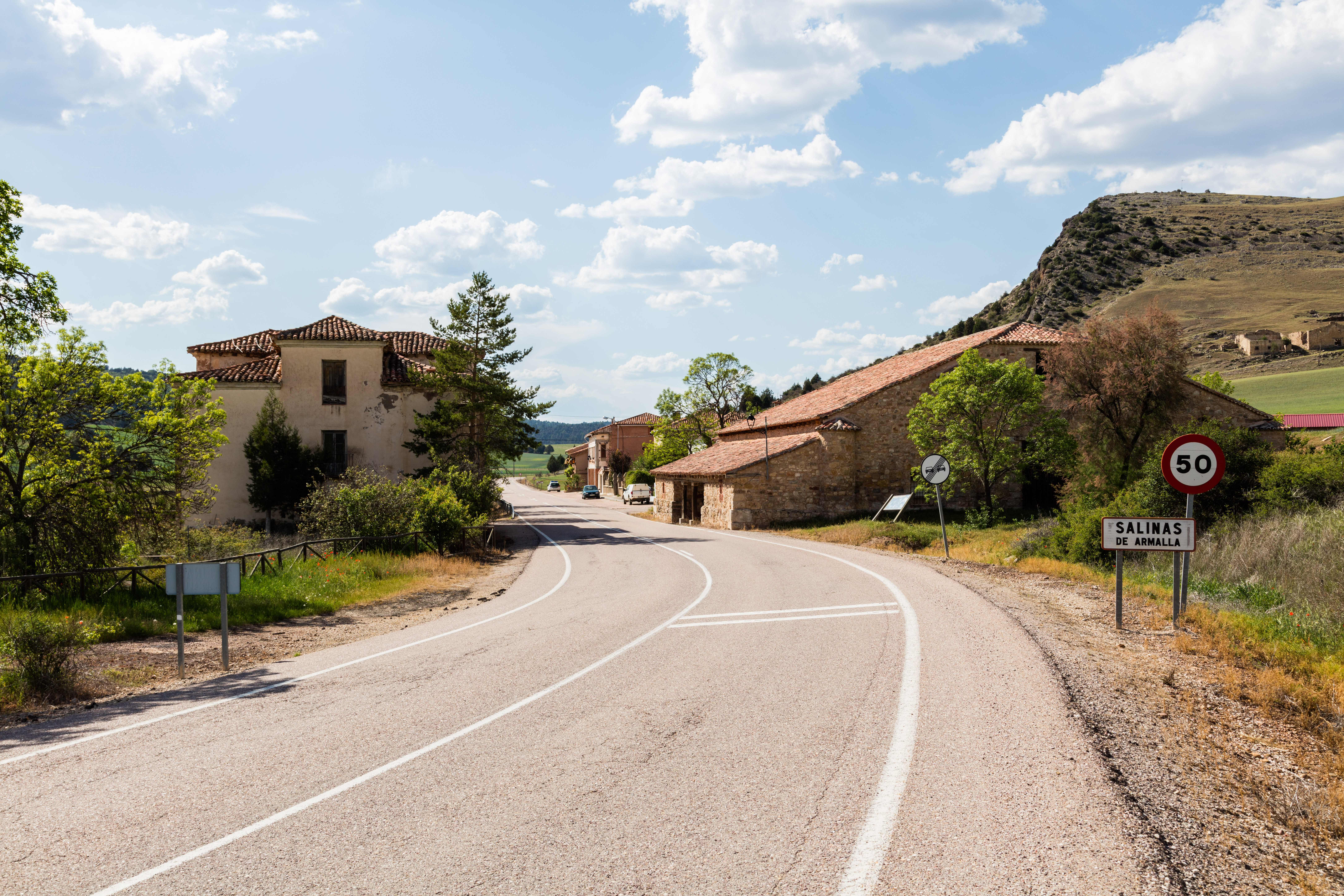 Salinas de Armalla, Guadalajara, Spain